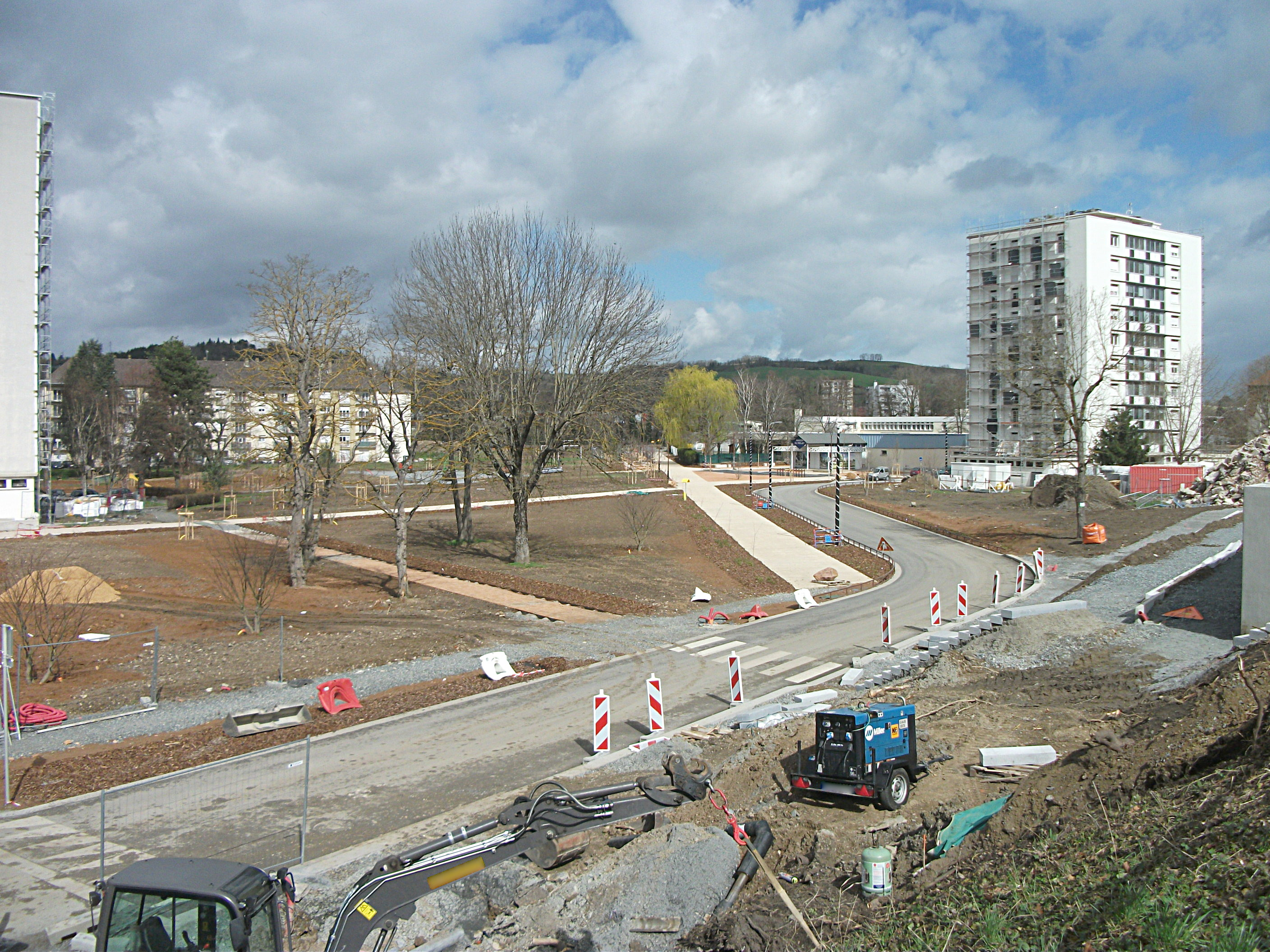 In the neighbourhood of Presles (Cusset, Allier, Auvergne-Rhône-Alpes, France), recently reconfigurated Allée Mesdames. [17865]